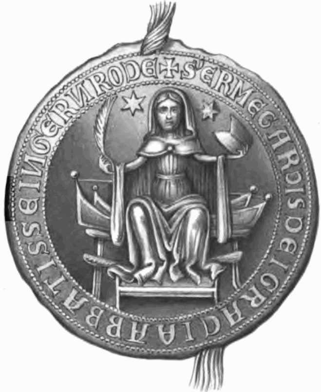 Seal of the Abbess of Gernrode Irmingard II. von Ummendorf